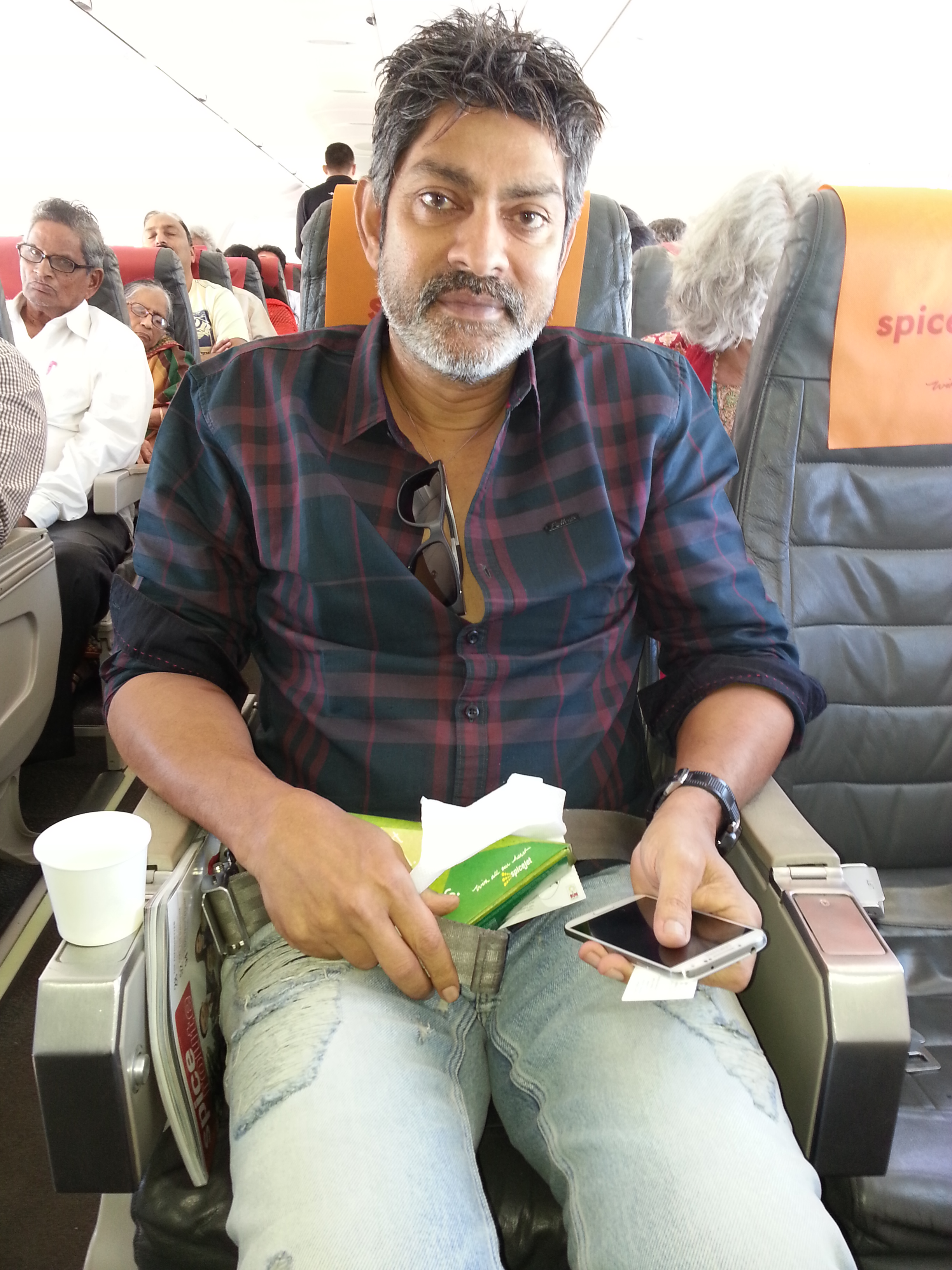 Telugu film actor Jagapati Babu